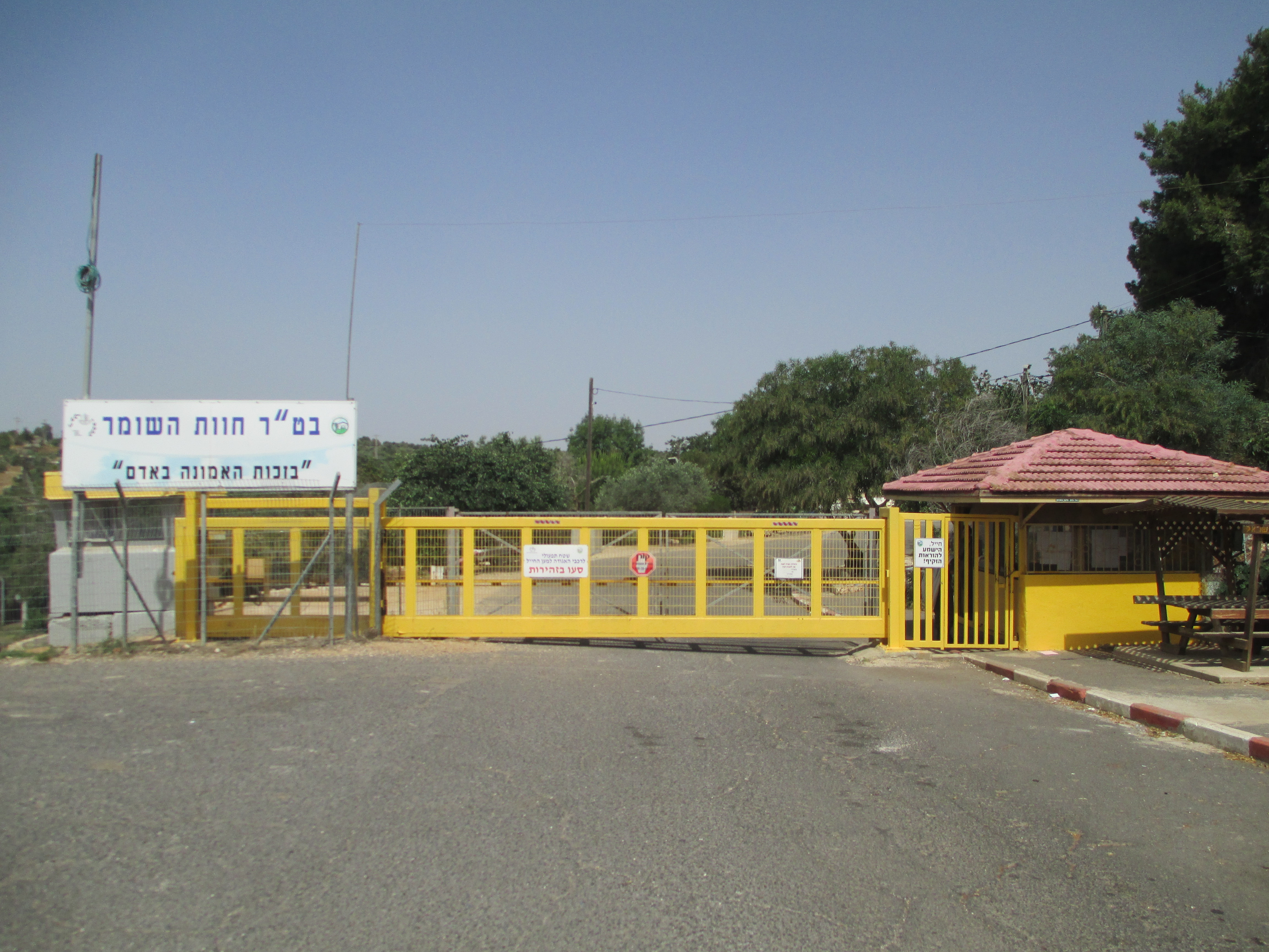 Hashomer farm